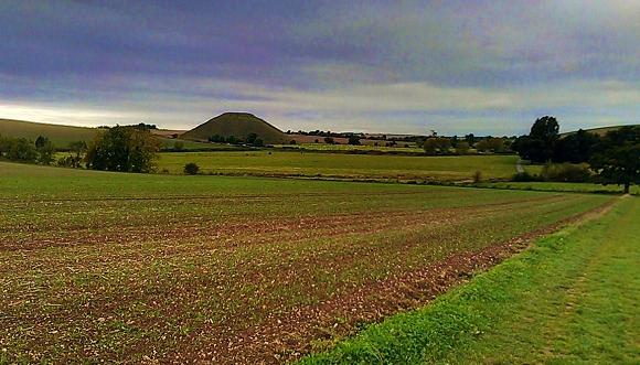 Silbury Hill, as seen from halfway up the slope of the hill on which West Kennet Long Barrow is located in Avebury, Wiltshire.